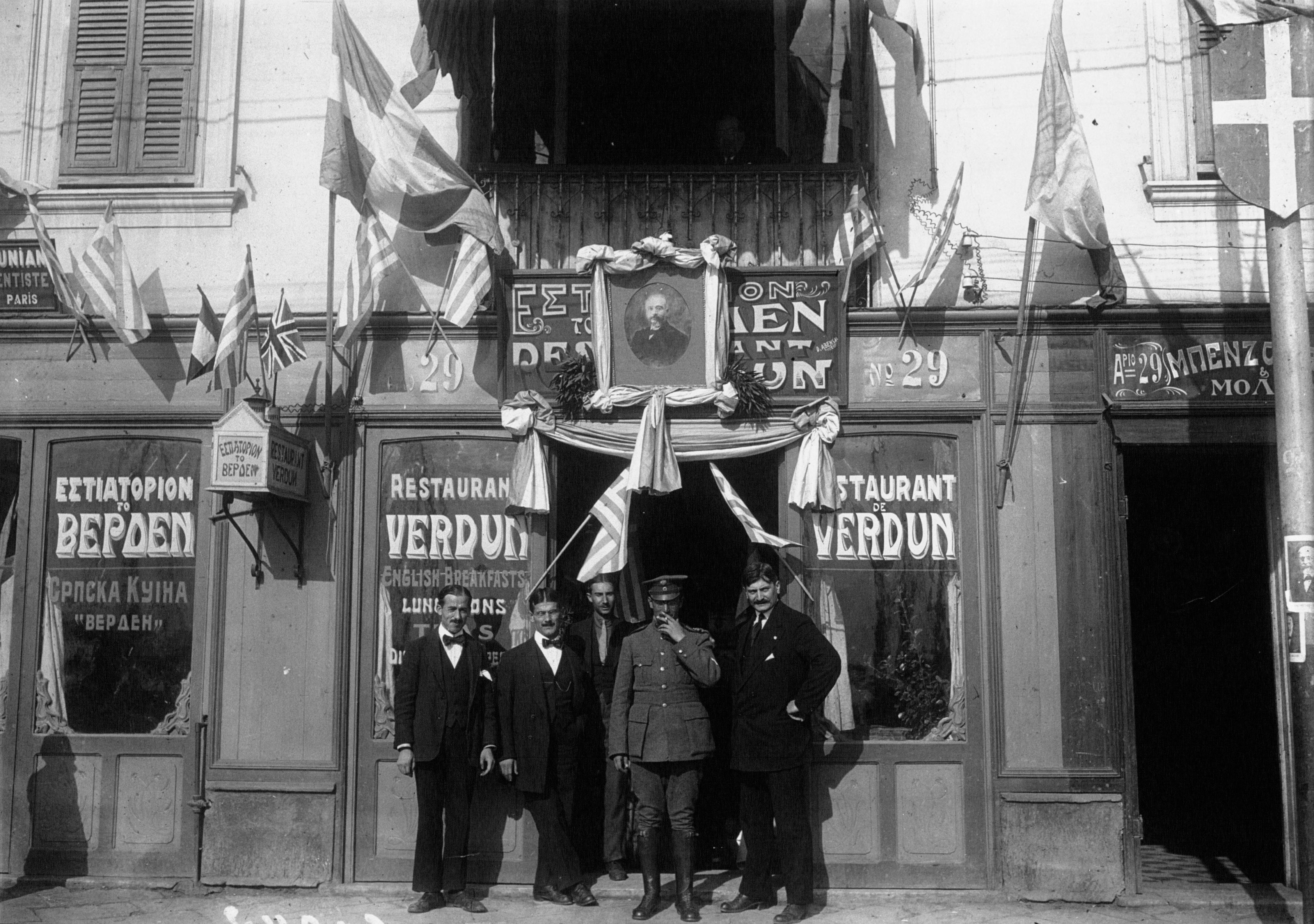 The Rastaurant "Verdun" in Thessaloniki, decorated in support of Eleftherios Venizelos and his Movement of National Defence, 1916